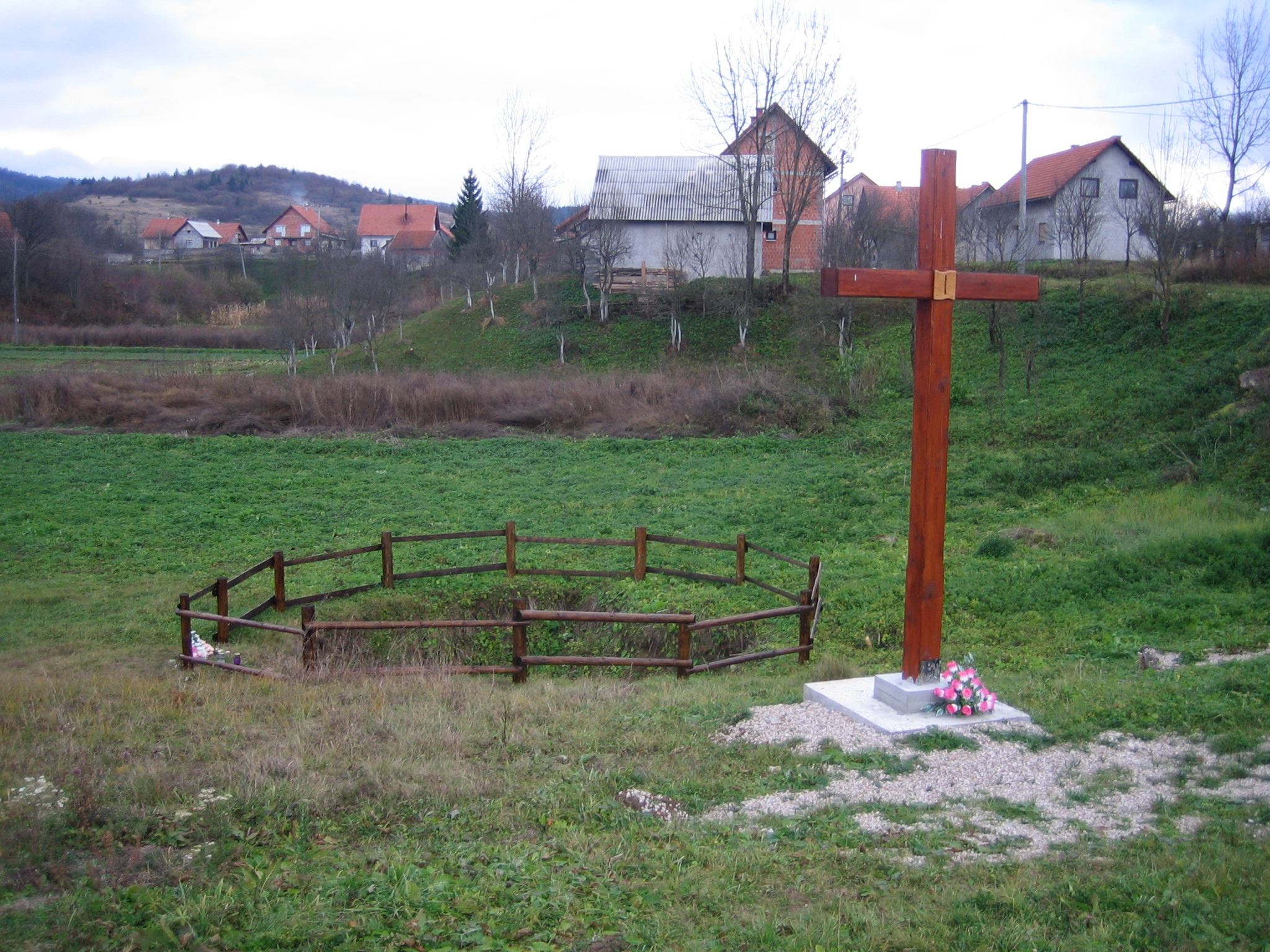 Mass grave of Croat civilians, killed by Serb rebbels, during Croatian War of Independence